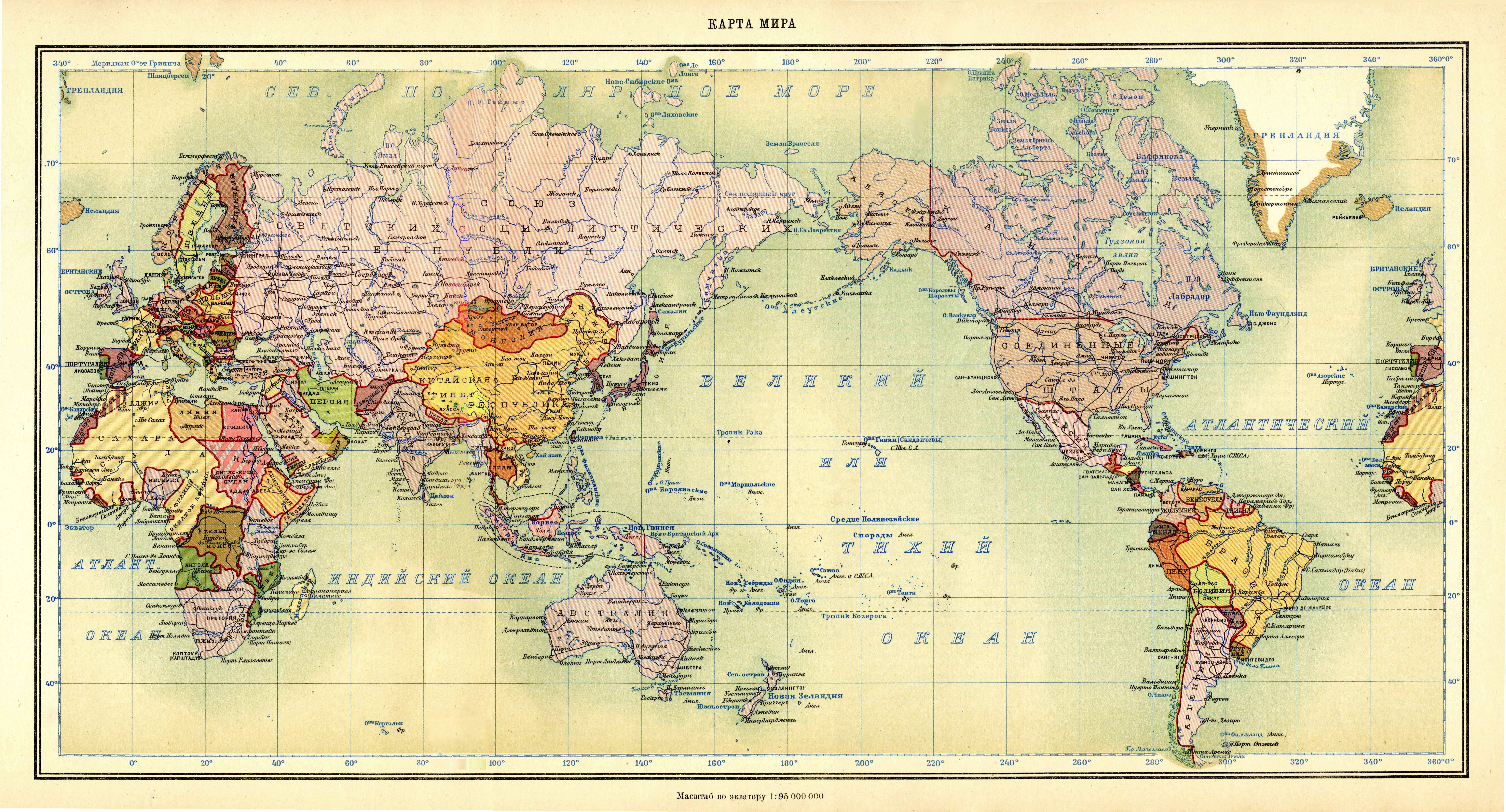 World map from an SU atlas of 1928 (Merged two source maps).